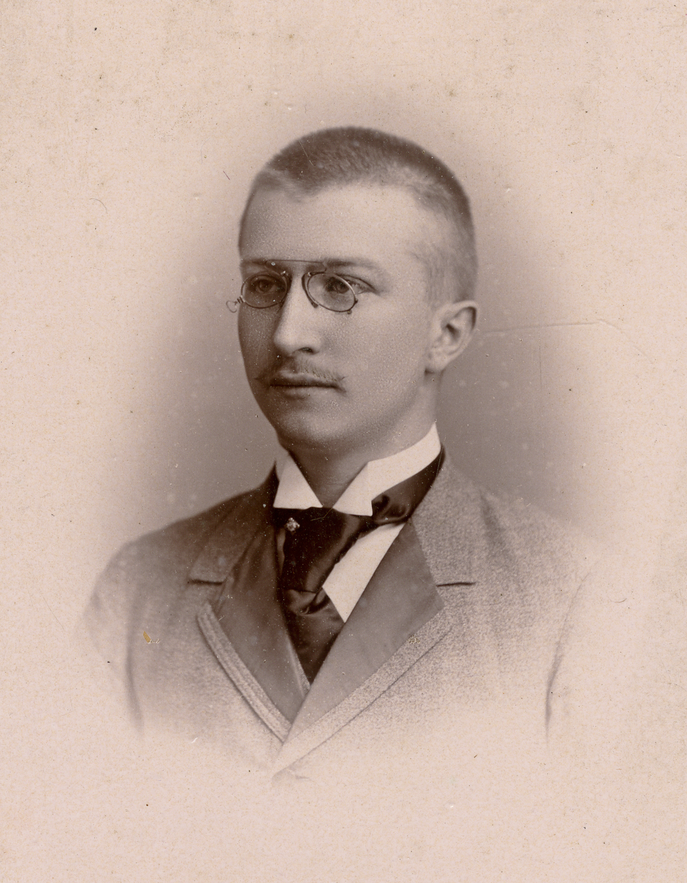 Viggo Valdemar Dan (1871-1935), Danish architect